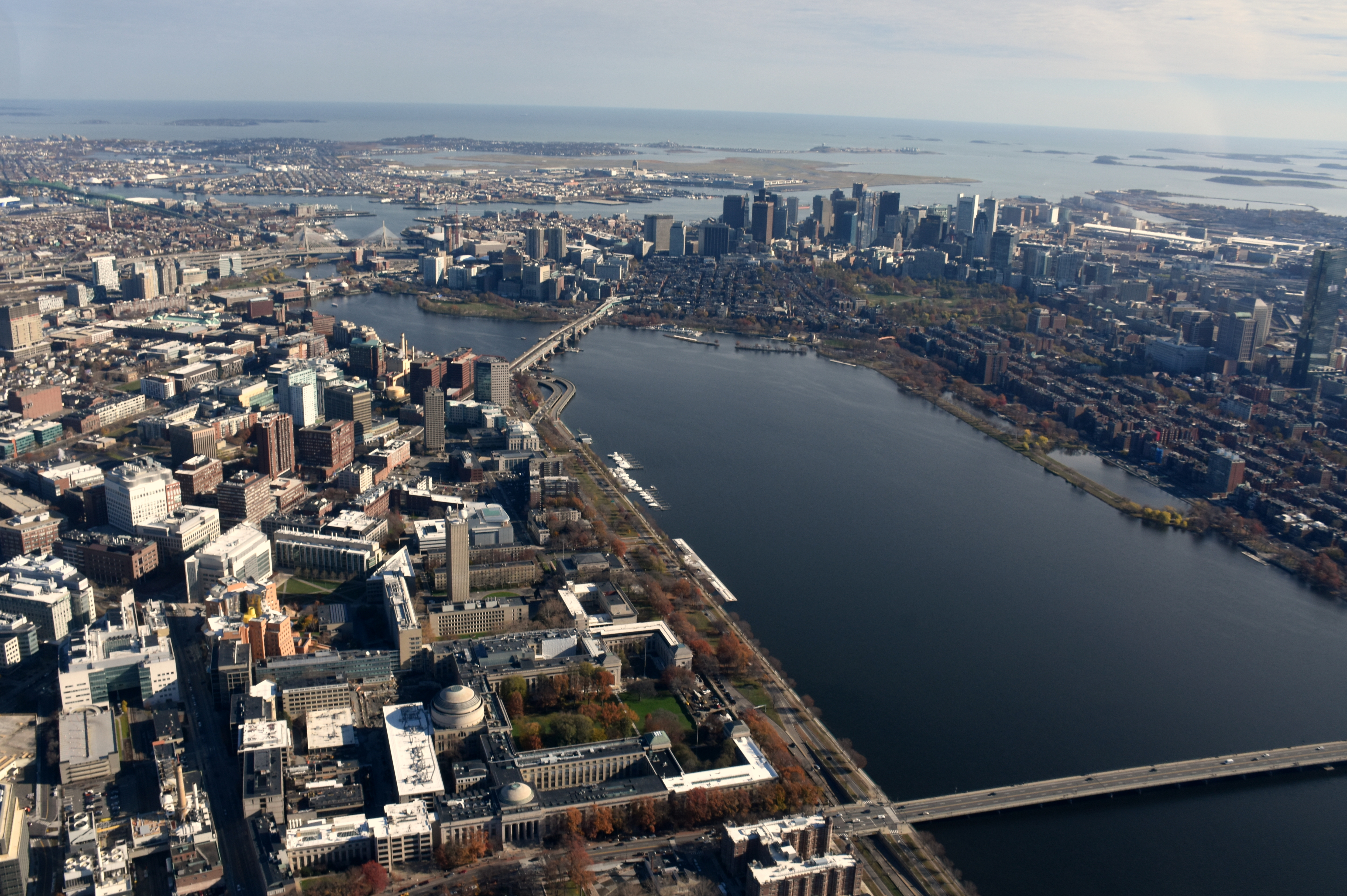 Aerial view of the East Campus of the Massachusetts Institute of Technology (MIT) and the Charles River, facing Back Bay and central Boston. Bottom right is the Harvard Bridge.